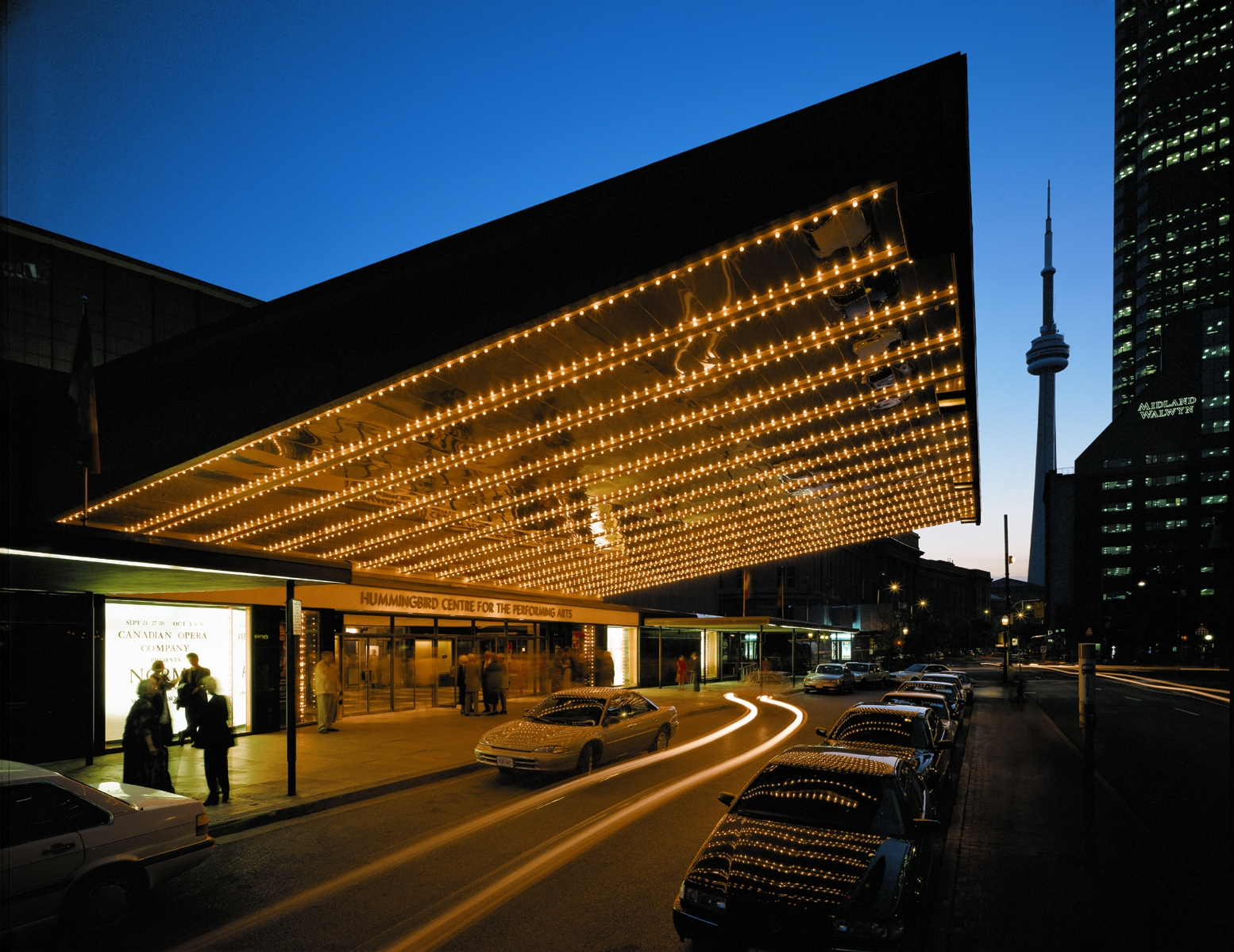 sony centre